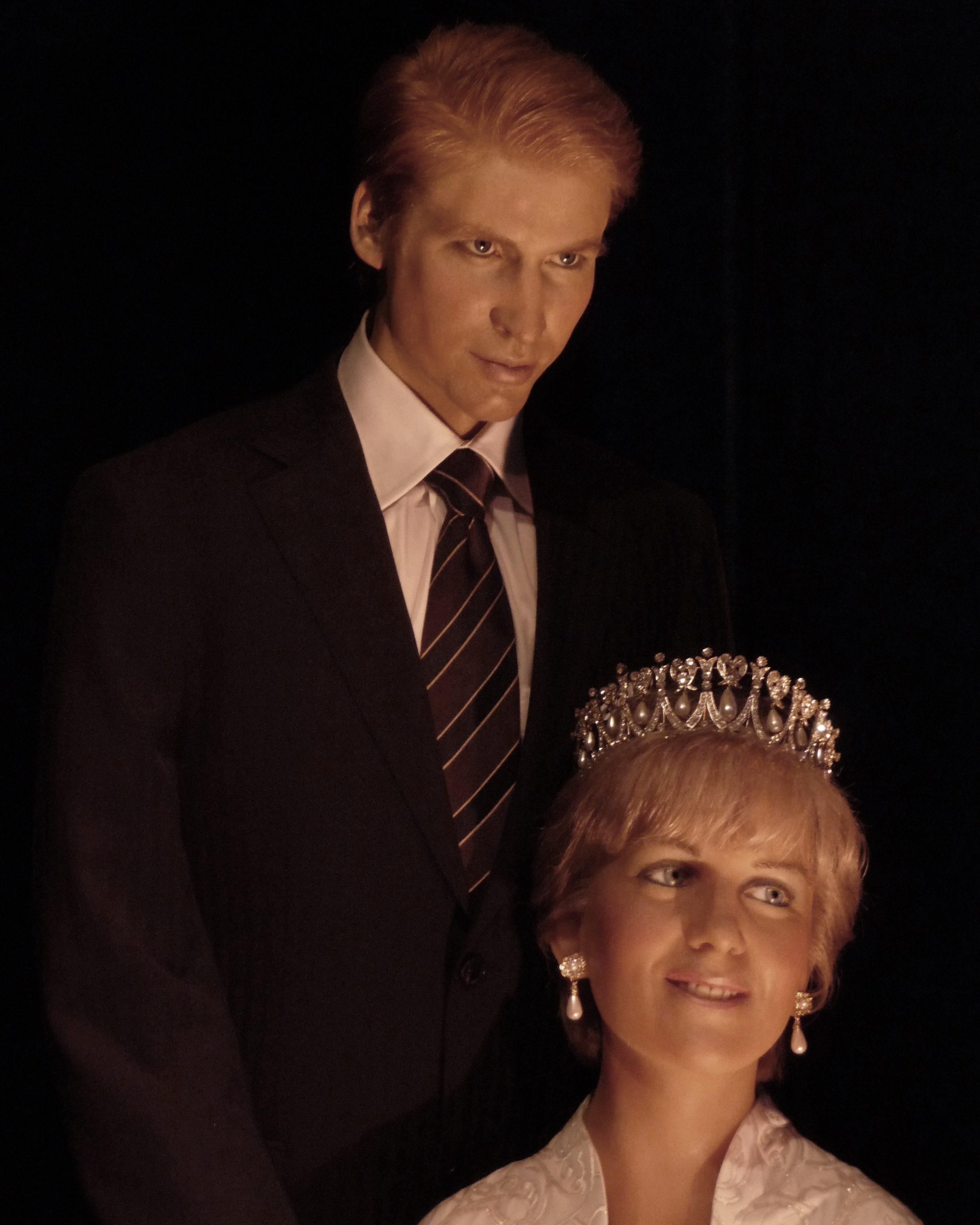 Royal London Wax Museum - Diana, Princess of Wales & Prince William Royal London Wax Museum, Victoria, British Columbia, Canada